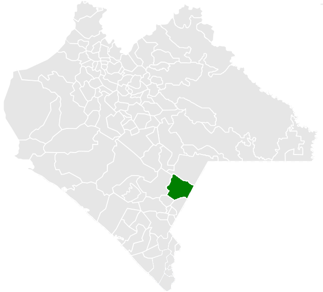 Map of the Municipalty of Frontera Comalapa in the State of Chiapas, México.